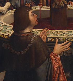 On the center right is Maria of Aragon, followed by Isabella of Portugal, and then Beatrice of Portugal, Duchess of Savoy and the center left is Manuel I of Portugal, followed by his sons in descending order of age.